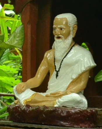 Fragment of File:Watkhungtaphao_Herbal_Garden.jpg